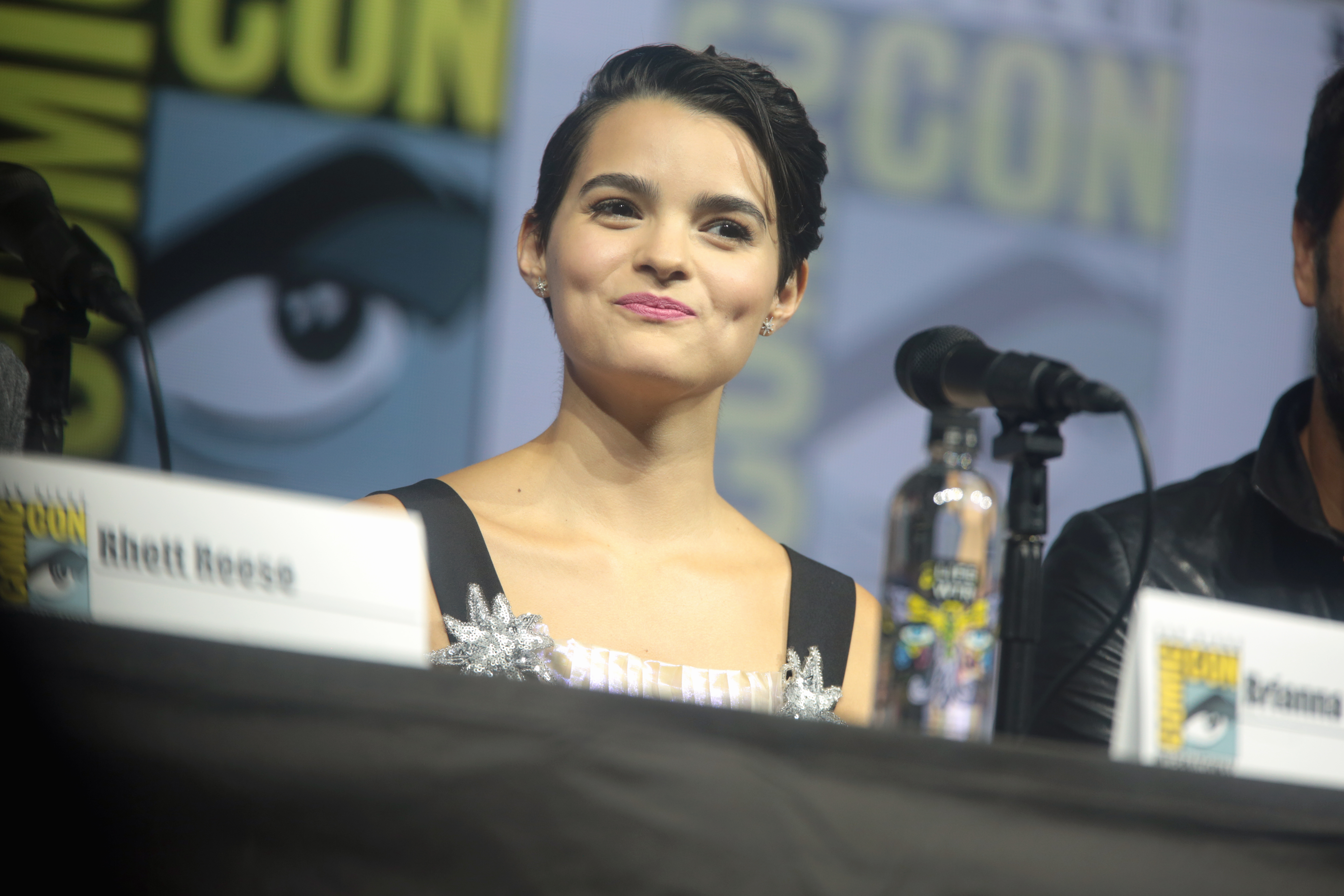 Brianna Hildebrand speaking at the 2018 San Diego Comic Con International, for "Deadpool 2", at the San Diego Convention Center in San Diego, California.